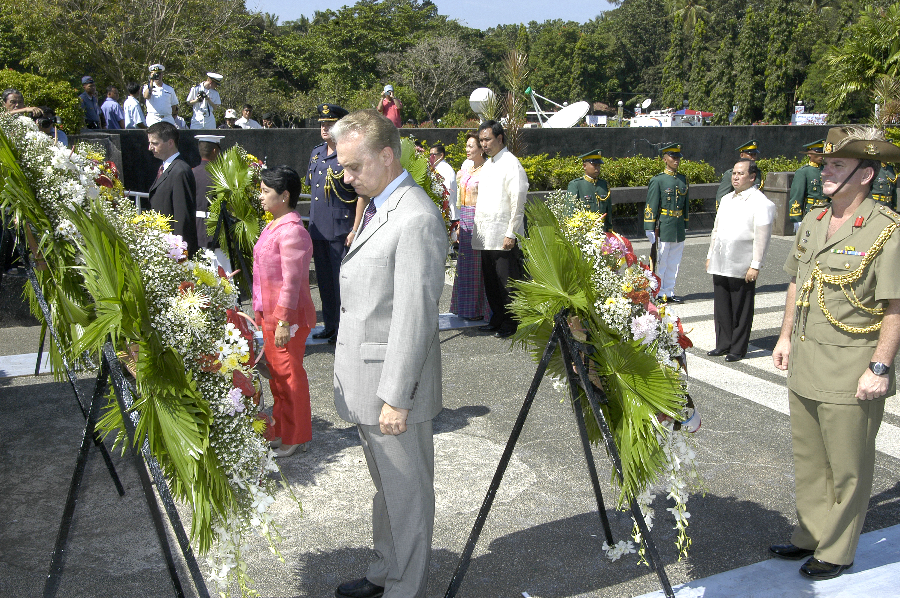 The President of the Philippines, Gloria Macapagal-Arroyo, and the Honorable Francis J. Ricciardone, Jr., U.S. Ambassador to the Philippines, Jericho Petilla, governor of Leyte, Remedios Petilla, former governor and present representative, along with dignitaries from the United Kingdom, Australia, New Zealand and the Philippines participate in a wreath laying ceremony during the 60th Leyte Gulf Landings Anniversary commemoration at MacAurthur Landing Memorial National Park, Palo, Leyte, Philippines, Oct. 20, 2004. U.S. Navy photo by Chief Petty Officer John S. Stadelman